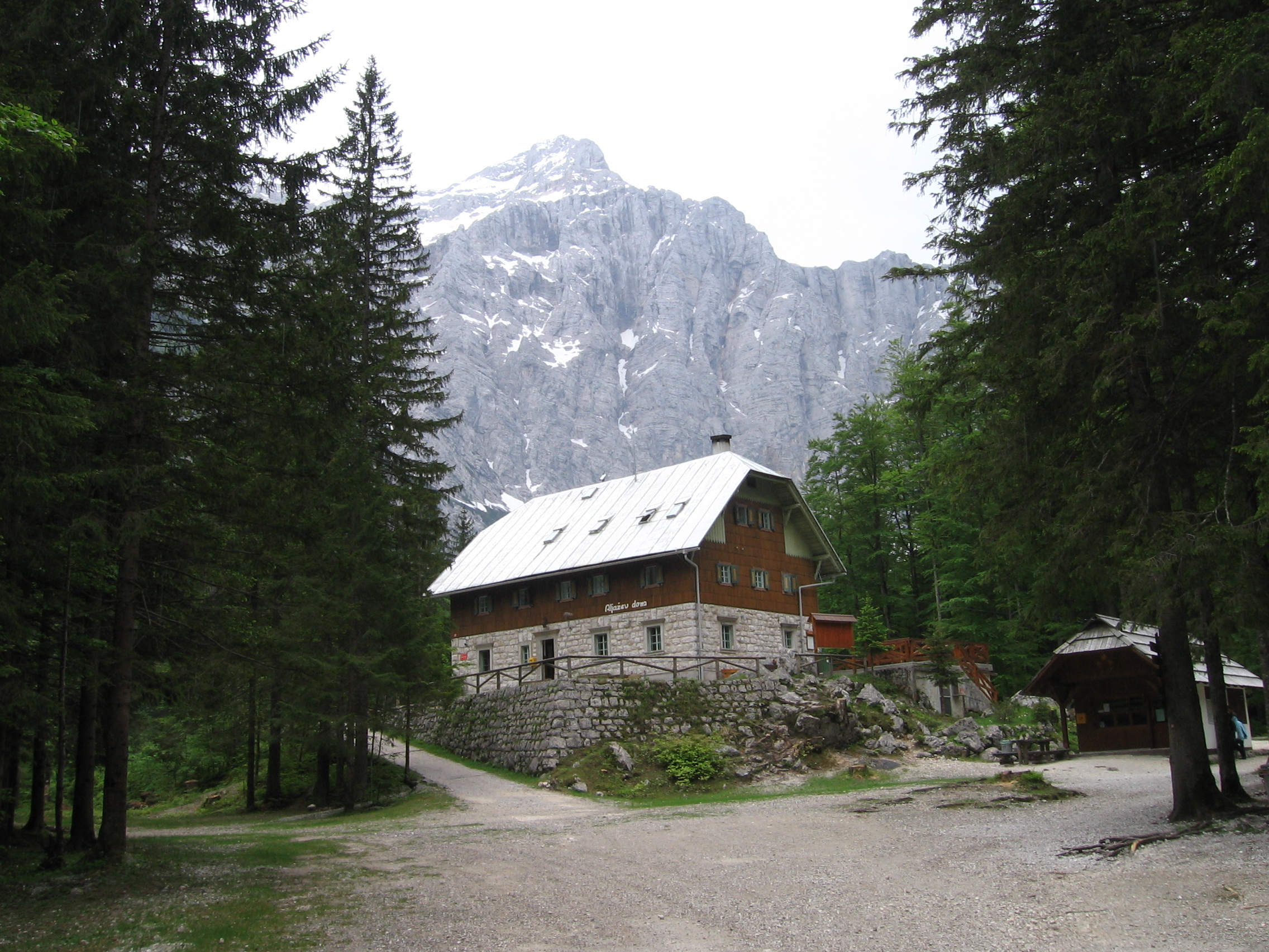 Jakob Aljaž's hut in Vrata Valley, with Triglav north face behind